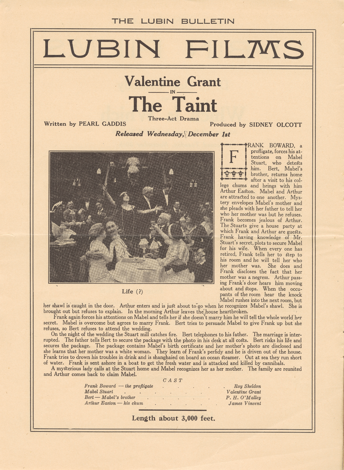 Lubin Bulletin advertisement for the American film The Taint (1915).